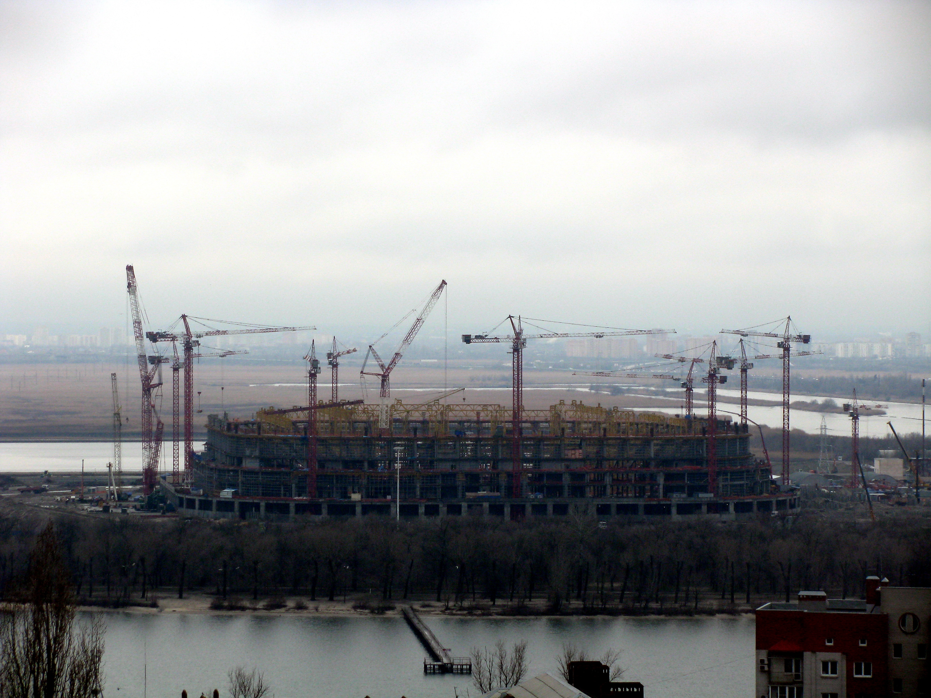 Process of construction of Rostov-Arena